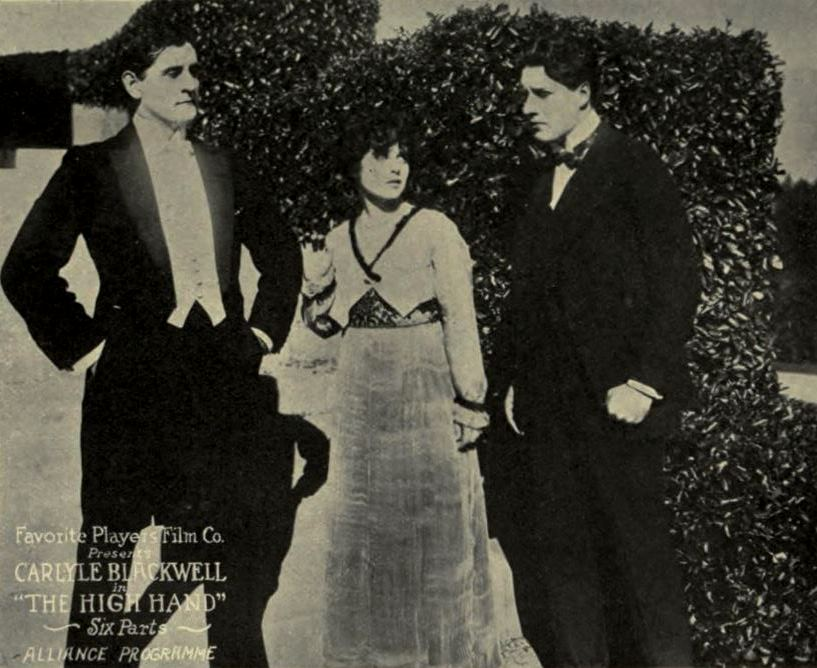 Still from the American drama film The High Hand (1915) with Carlyle Blackwell, Neva Gerber, and Douglas Gerrard, on page 152 of the novel. Caption: Lewis resents Jim's attentions to Edna.